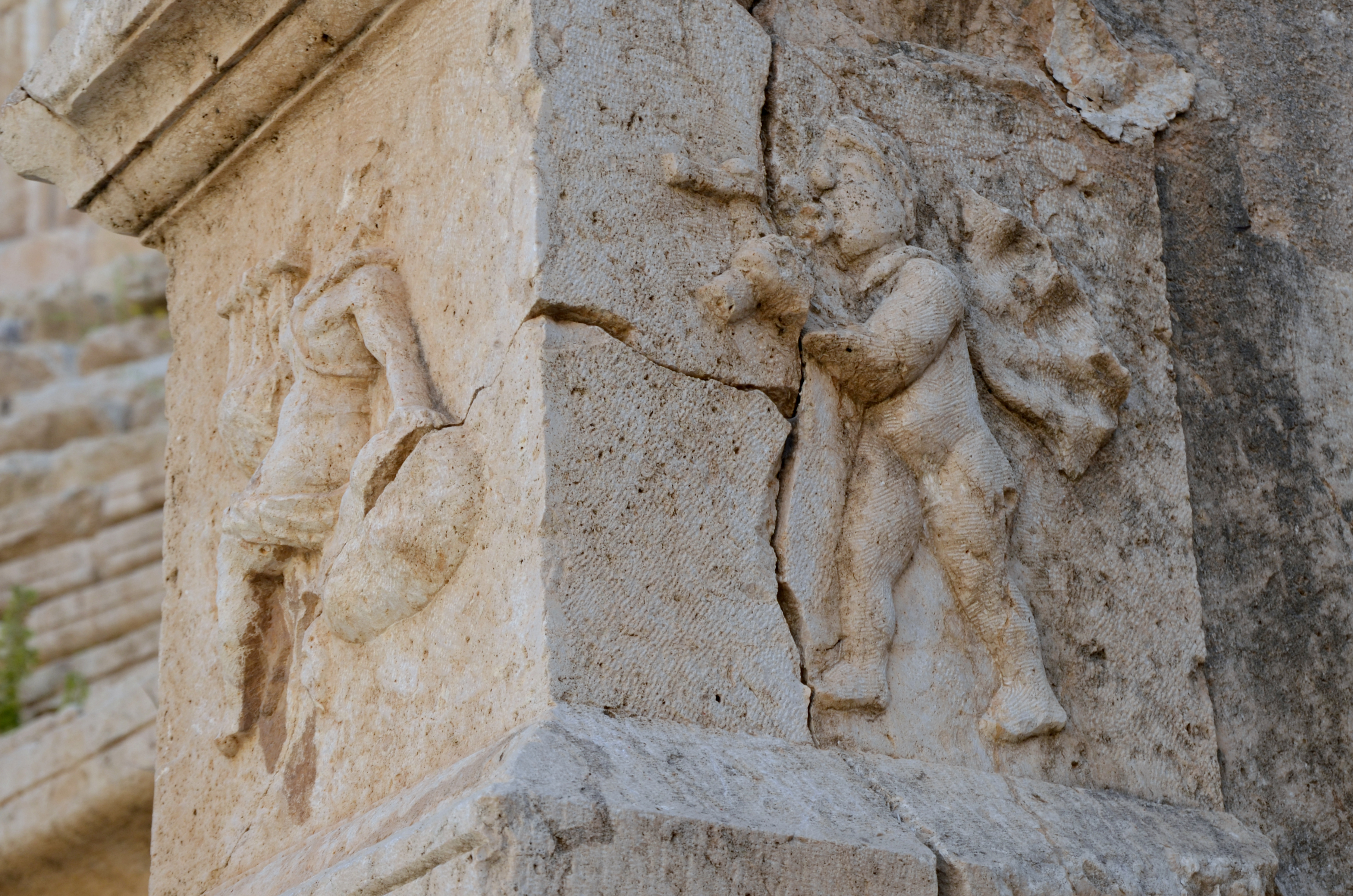 Sculptures on the cavea of the North Theatre, Gerasa, Jordan